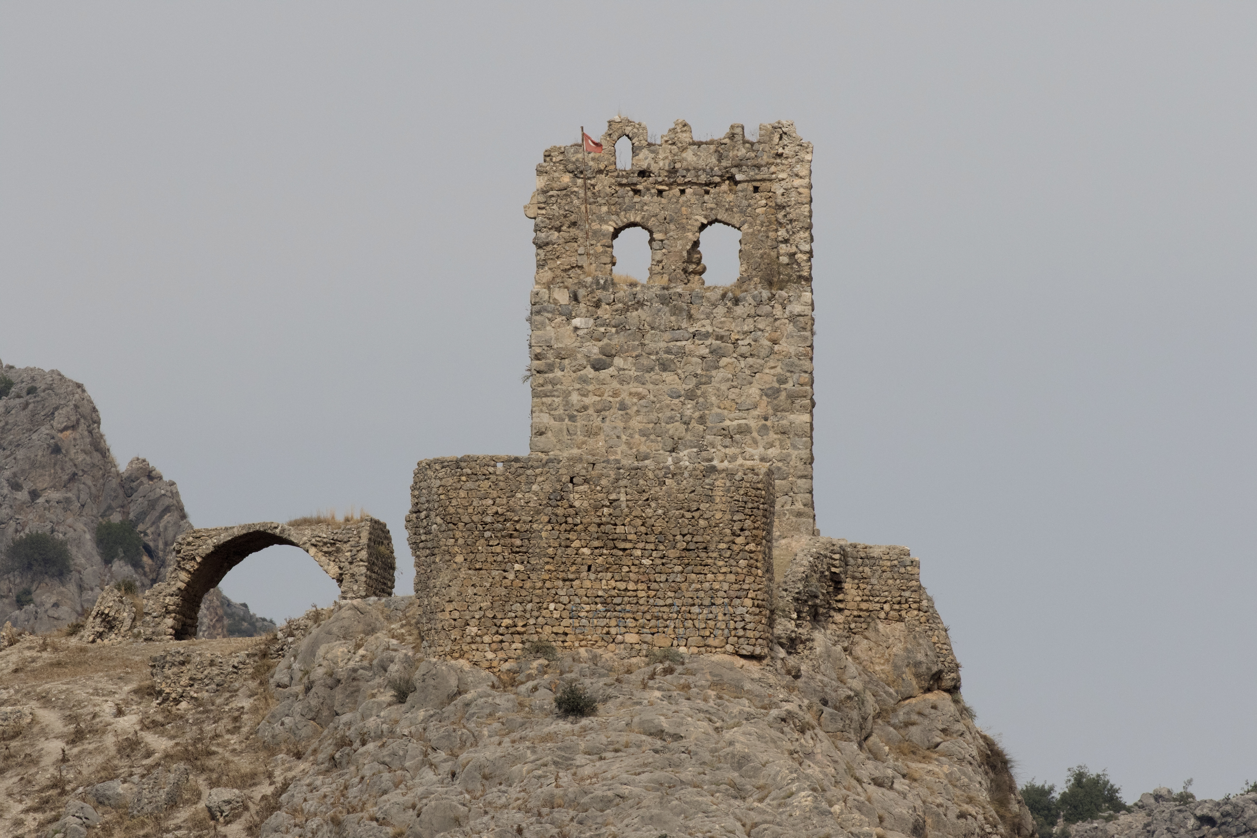 A western side view of Amouda Castle in Gökçedam Village, Osmaniye - Turkey.